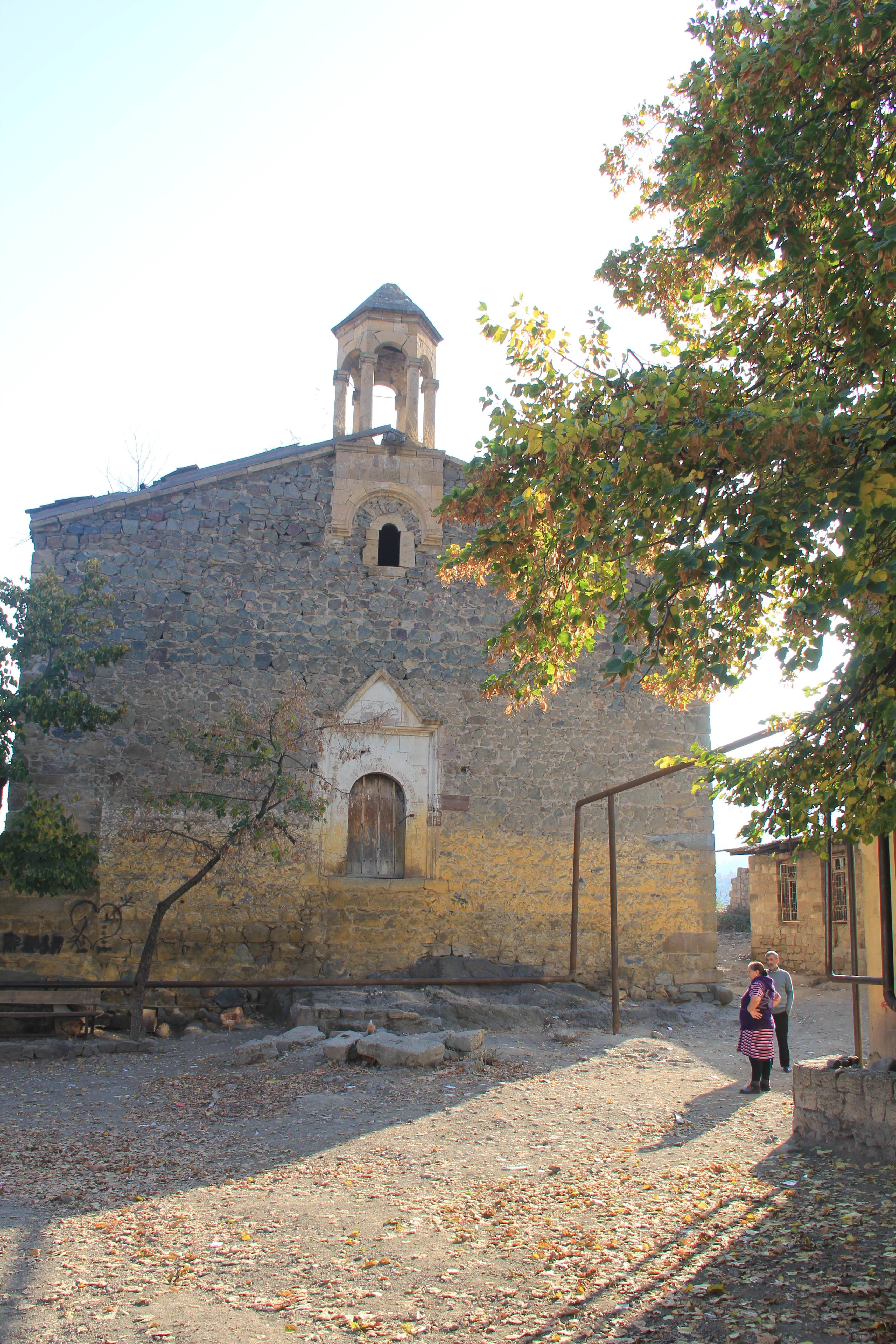 Temple Chichravyang Bayan village